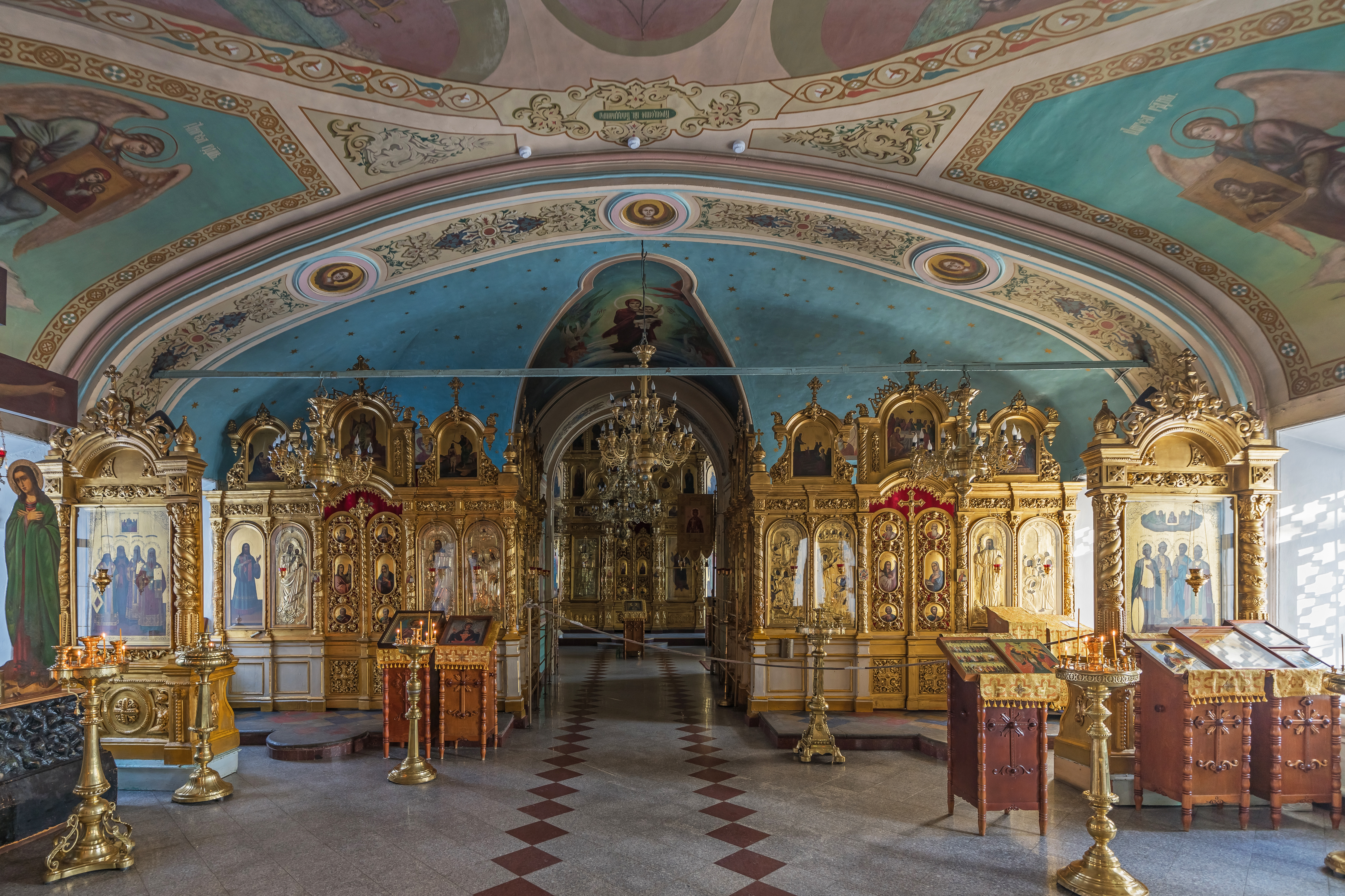 St. Vladimir Church in Vladimir, Russia